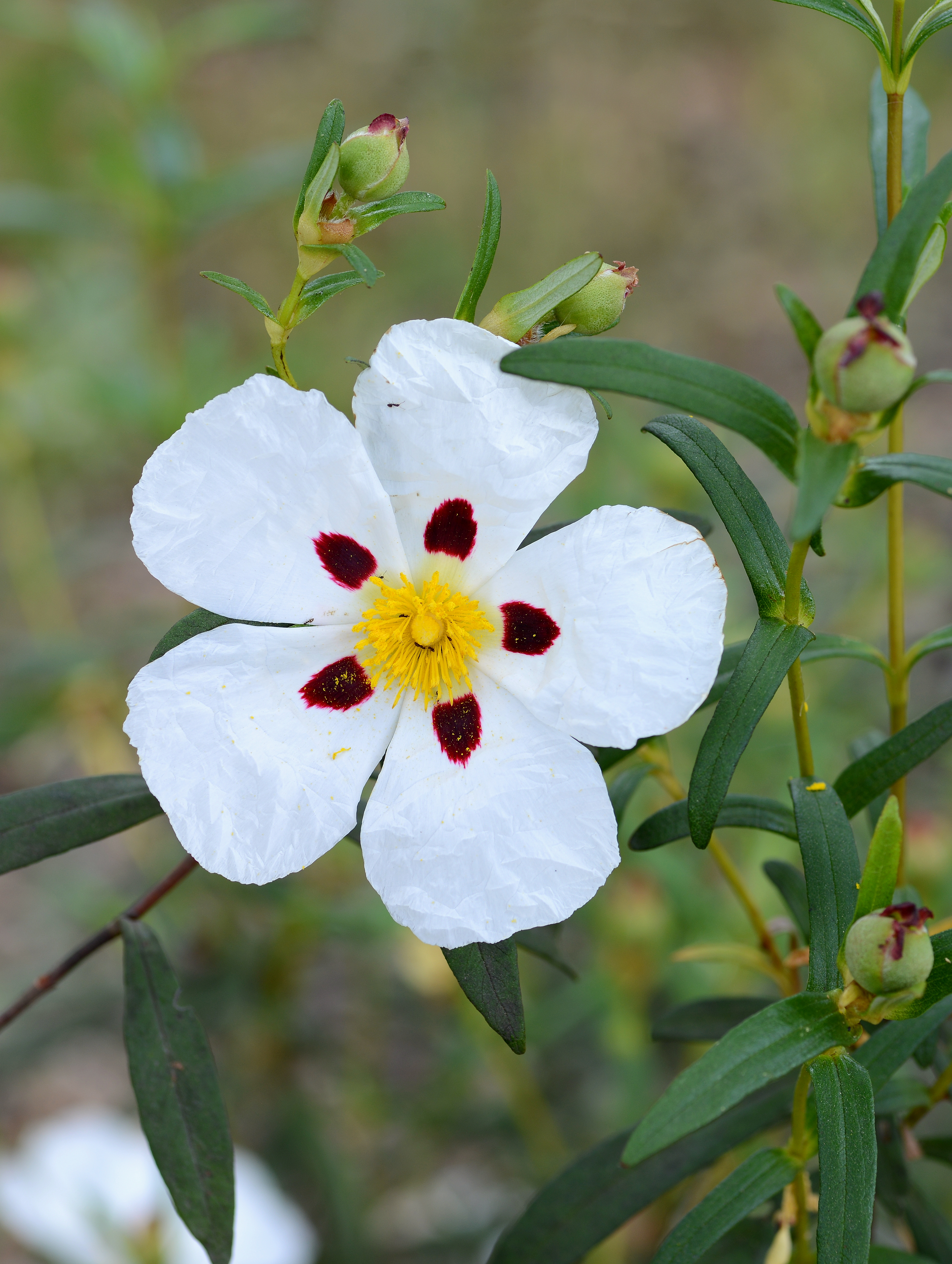 Cistus ladanifer. Porto Covo, Portugal